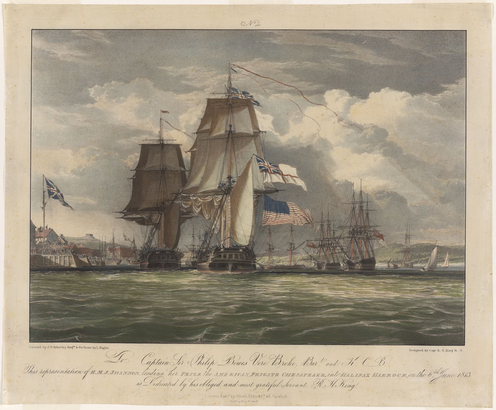 A depiction of the Royal Navy frigate H.M.S. Shannon leading the captured American frigate U.S.S. Chesapeake into Halifax Harbour, Nova Scotia, Canada, in June 1813.